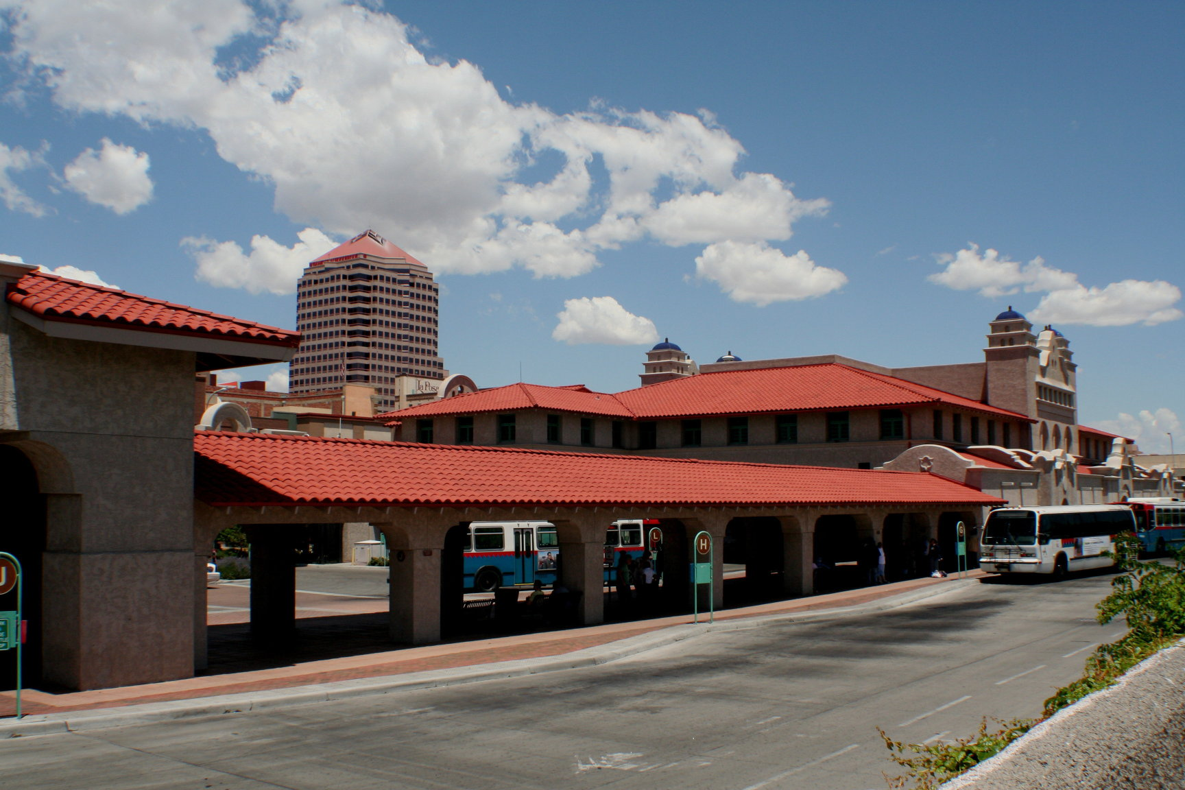 New intermodal transportation hub in location of demolished Alvarado Hotel in downtown Albuquerque, New Mexico.